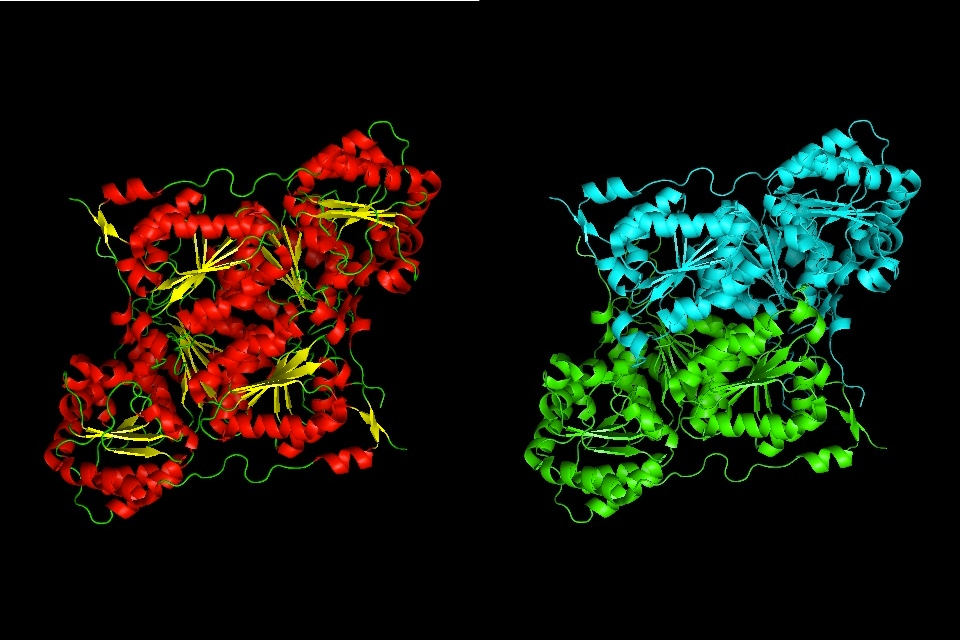 Two views of the structure of dimeric Oxalyl-CoA decarboxylase